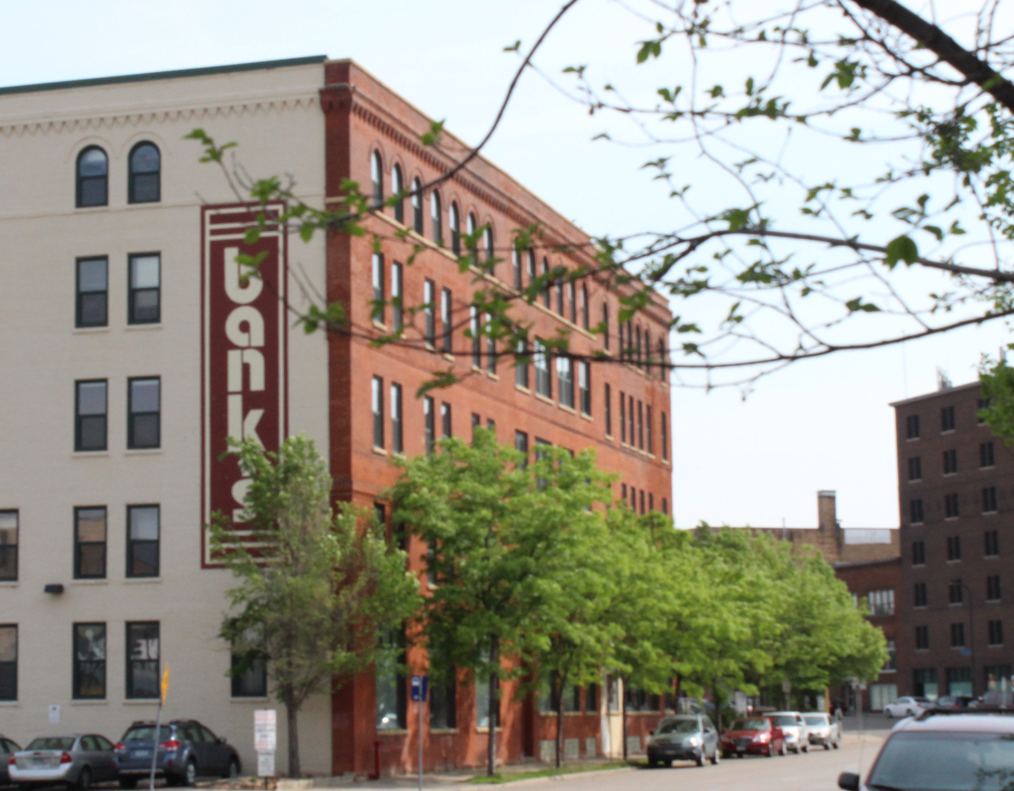 The Bank's Building at 615 1st Avenue NE in northeast Minneapolis